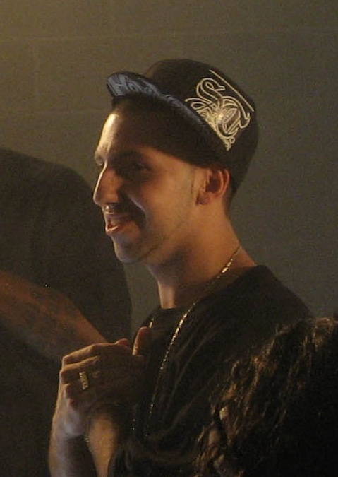 "How We Rock" video shoot